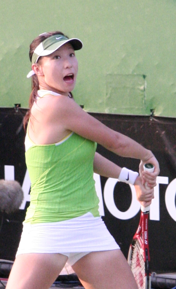 Zheng Jie at her first-round match of the 2007 Australian Open.